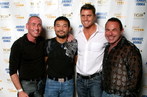 Gay and Lesbian Alliance Against Defamation's "TGIF" Fundraiser in West Hollywood inthe Summer of 2009. Reichen Lumkuhl, along with the California political duo of Don and Don Kevin stop on the Red Carpet (a long with friend for photos. (Don Norte, friend, Reichen Lehmkuhl, & Kevin Norte)